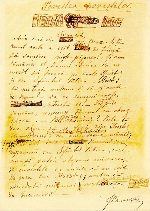 Original manuscript of Povestea poveștilor by Ion Creangă